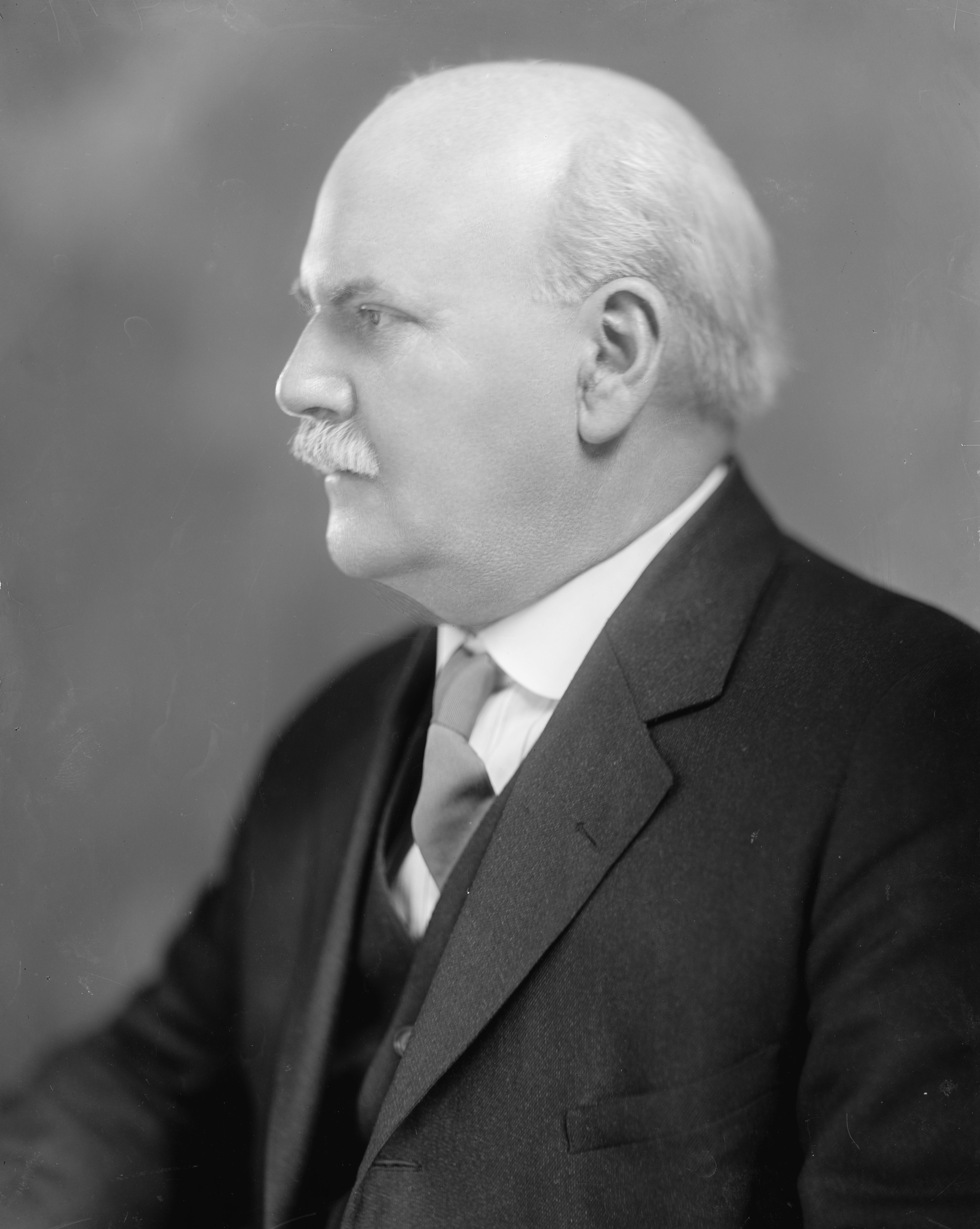 Augstin Reed Humphrey, Nebraska, attorney, judge, and politician.